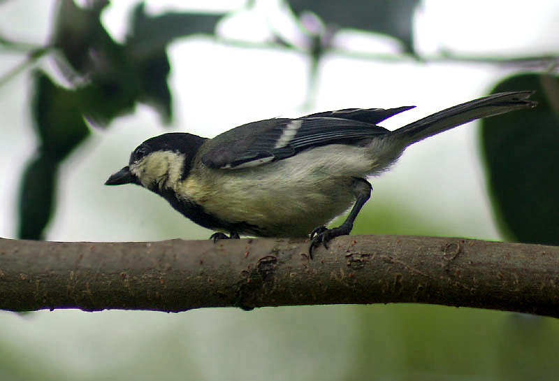 Cinereous Tit Parus cinereus in Kullu District of Himachal Pradesh, India.